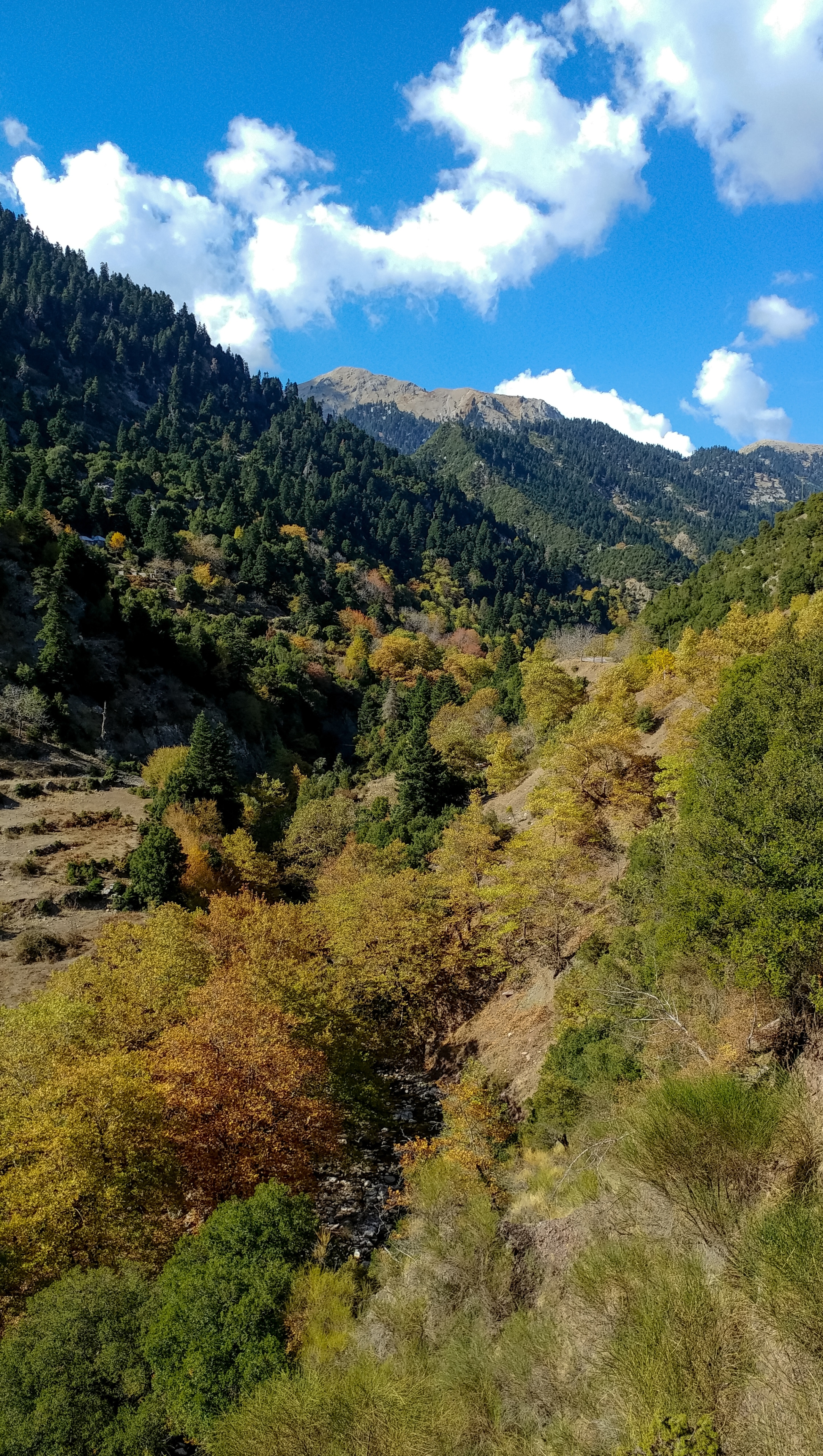 View of Panetoliko Mountain. The foto was taken from an area near Strigania village, Aetoloacarnania, Greece. This is a photography of Natura 2000 protected area with ID GR2310004